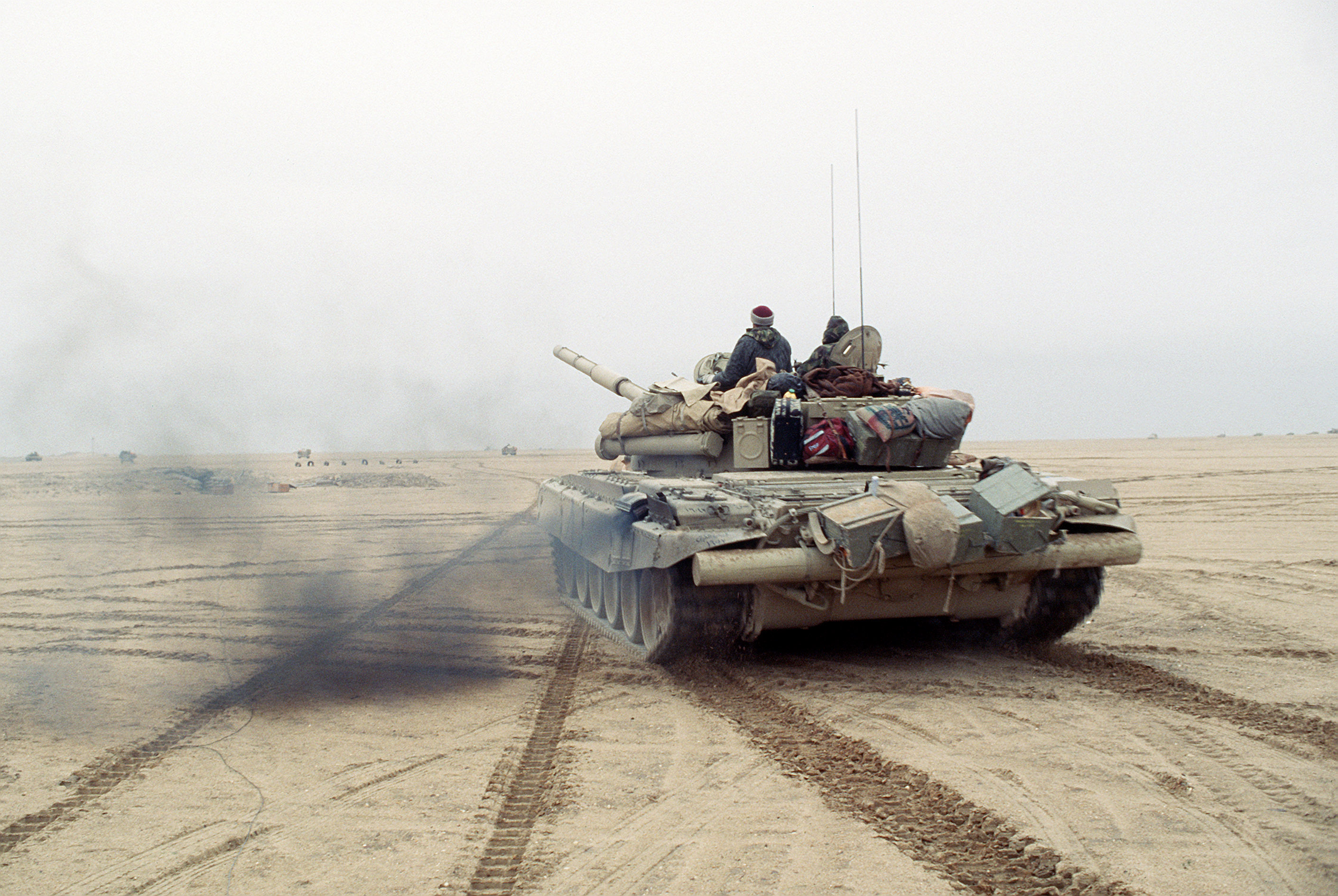 Members of the Coalition forces drive a T-72 main battle tank along a channel cleared of mines during Operation Desert Storm.